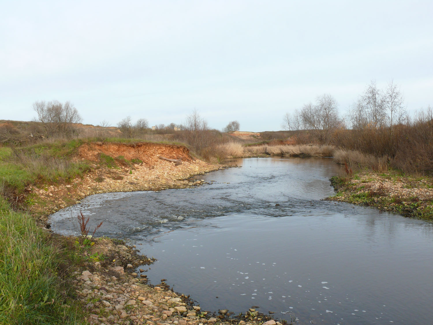 Psizha river in Buregi village, Starorussky district, Novgorod oblast, Russia